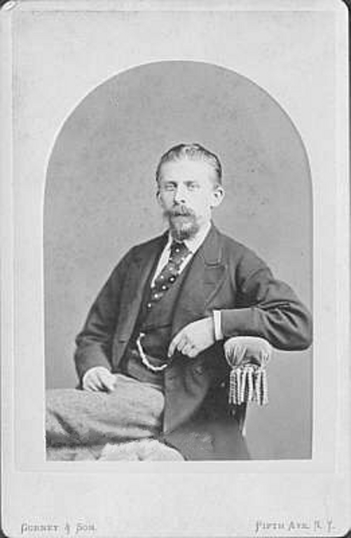 Carl August Nicholas Rosa (22 March 1842 – 30 April 1889) was a German-born musical impresario best remembered for founding an English opera company known as the Carl Rosa Opera Company